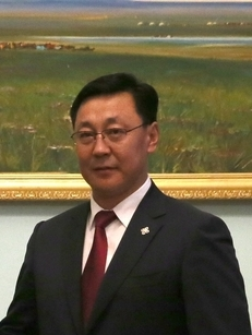 PM of Mongolia Jargaltulgyn Erdenebat